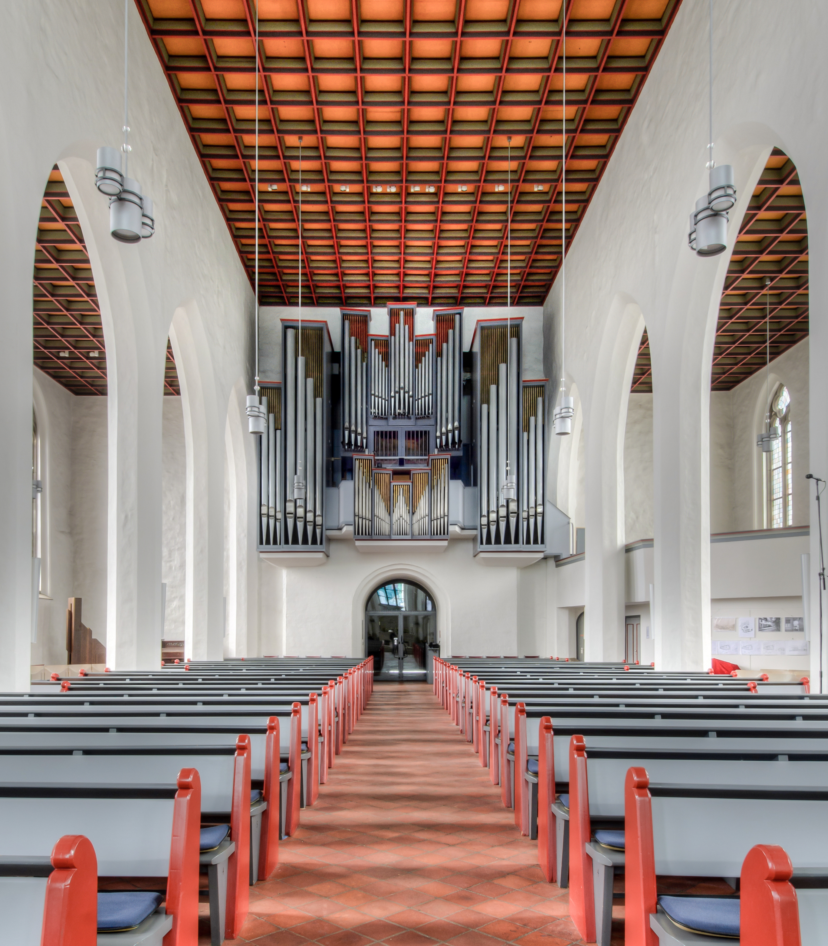 Interior of the "Petri-Kirche" in Mülheim an der Ruhr, Germany